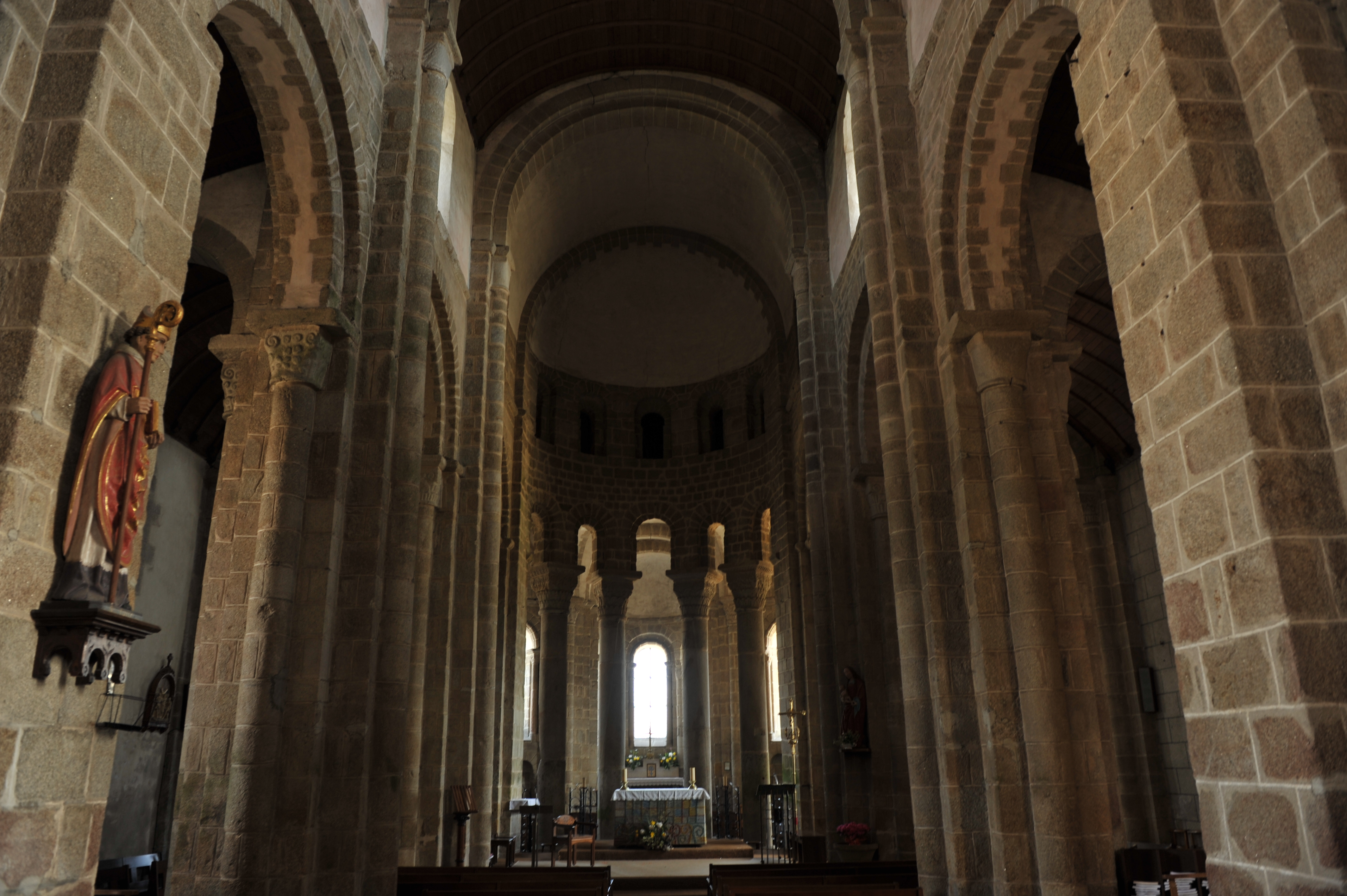 nave of the church Saint-Tudy Loctudy - Finistère - France